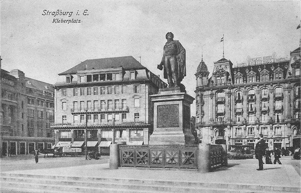 Postcard made around 1910, bearing a postal stamp from 10 September 1917